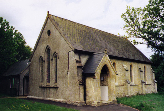 Former Methodist chapel at Standford, Hampshire, seen from the southeast